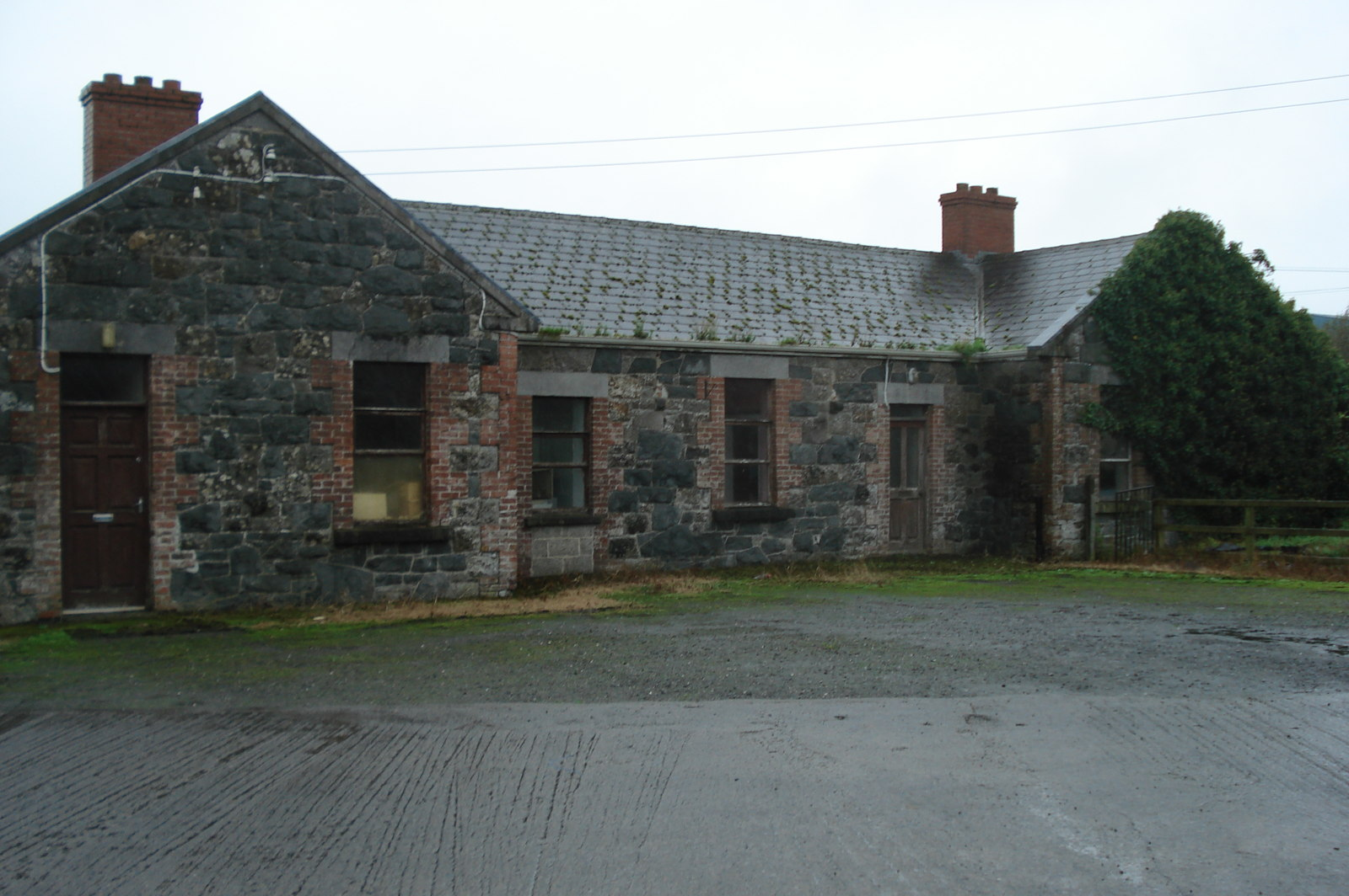 Killeshandra Railway Station. Iconic old railway station built in the 1860's and discontiued since 1947, now owned by Lakeland Dairies and becoming derelict.